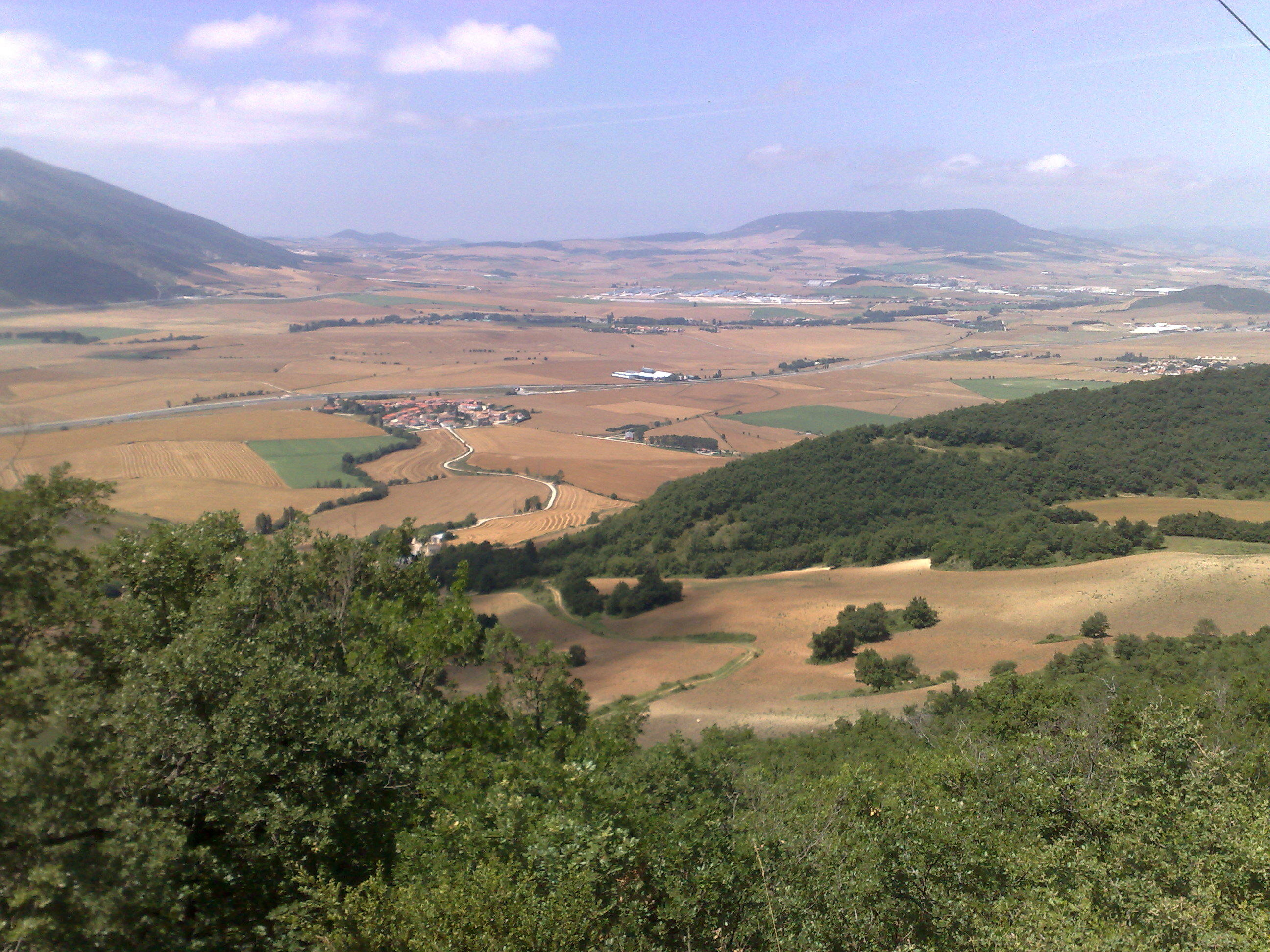 Most part of valley of Elortz and Beriain seen from mount Pagadi. Navarre, Basque Country.